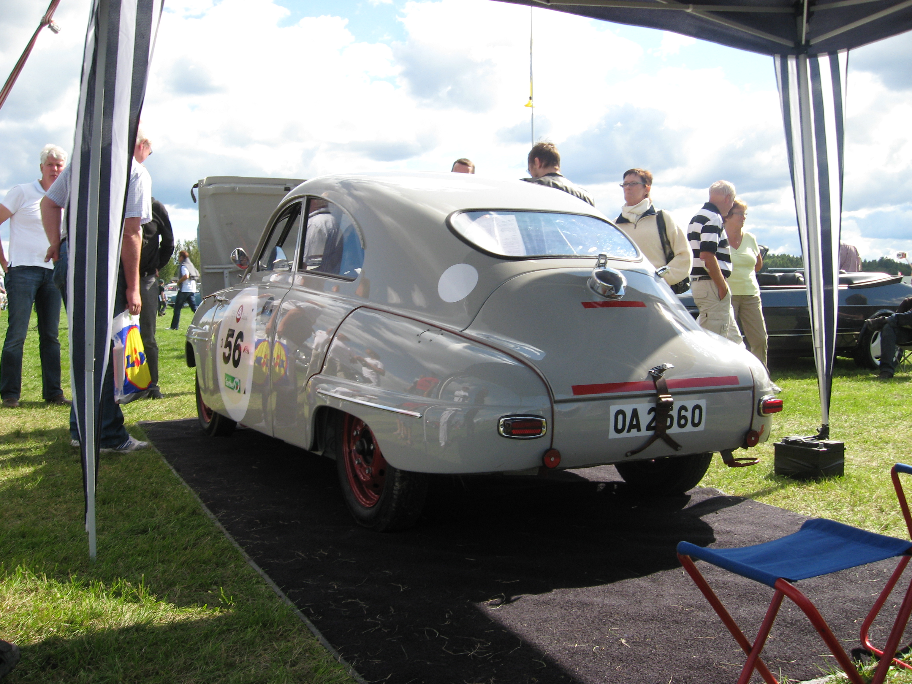 The LeMans winning SAAB 93.